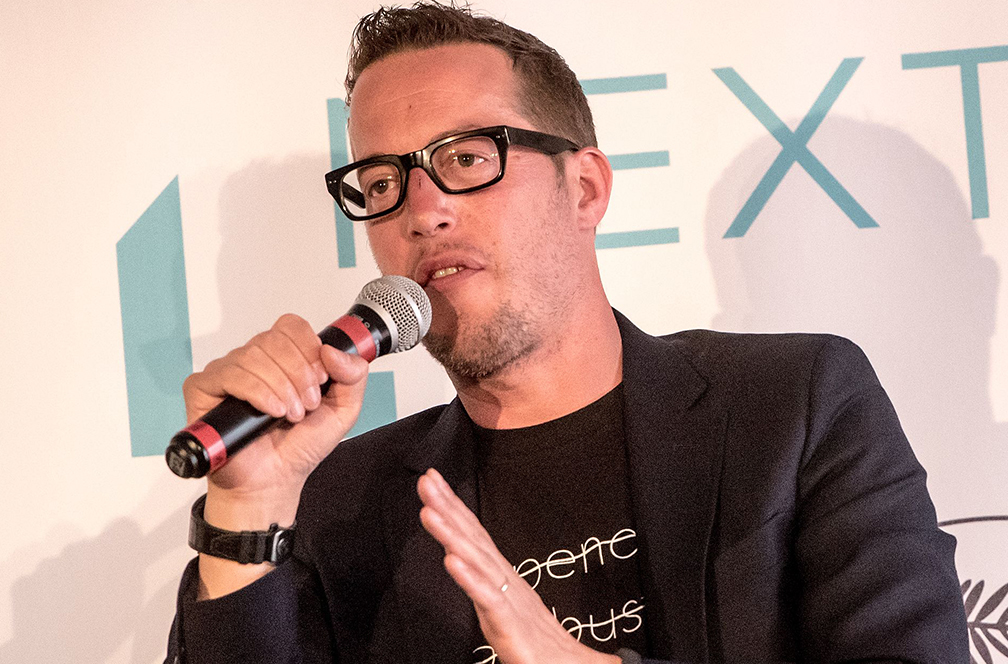 Martin Warner in Cannes 2016